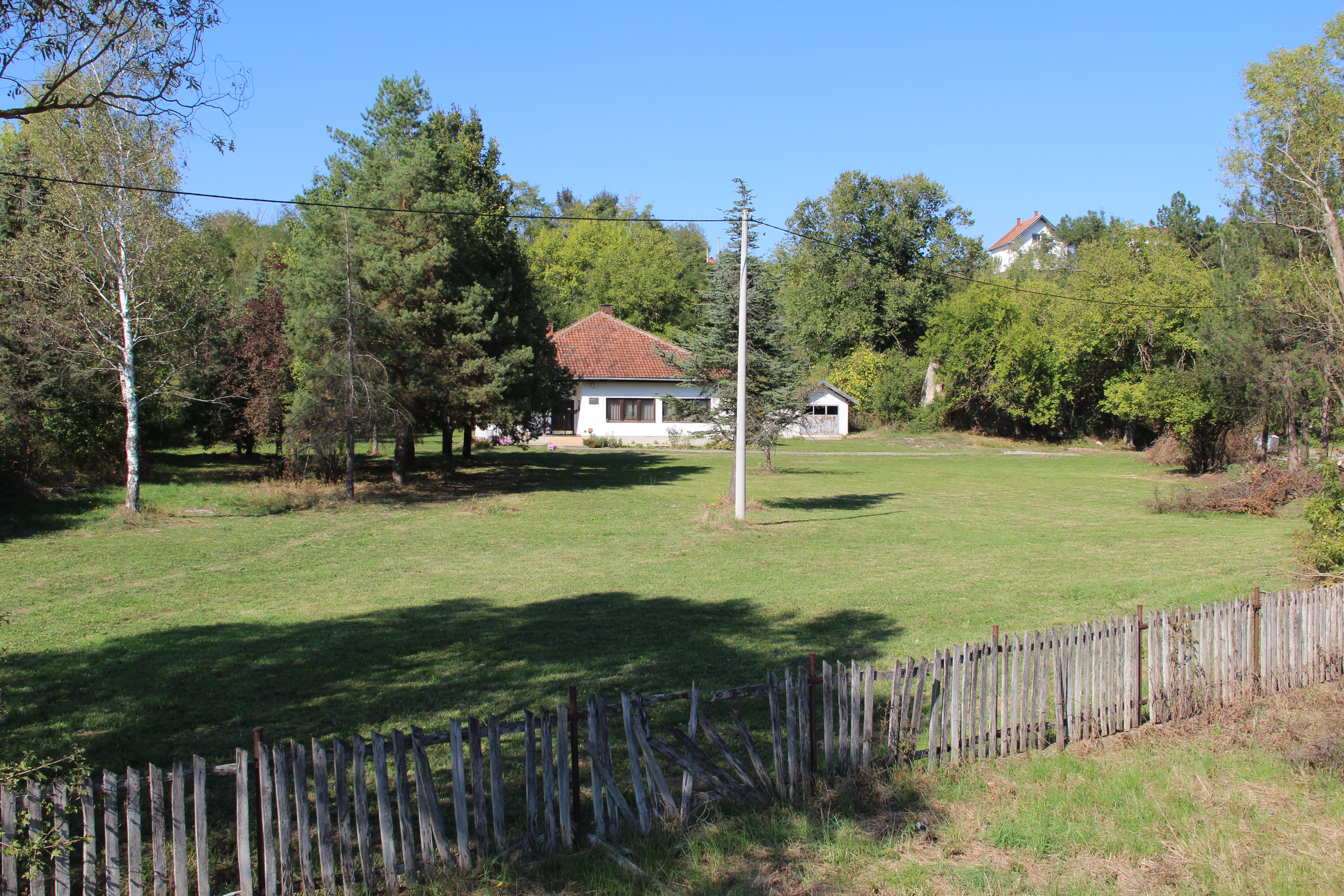 Valjevska Loznica village - Municipality of Valjevo - Western Serbia - School